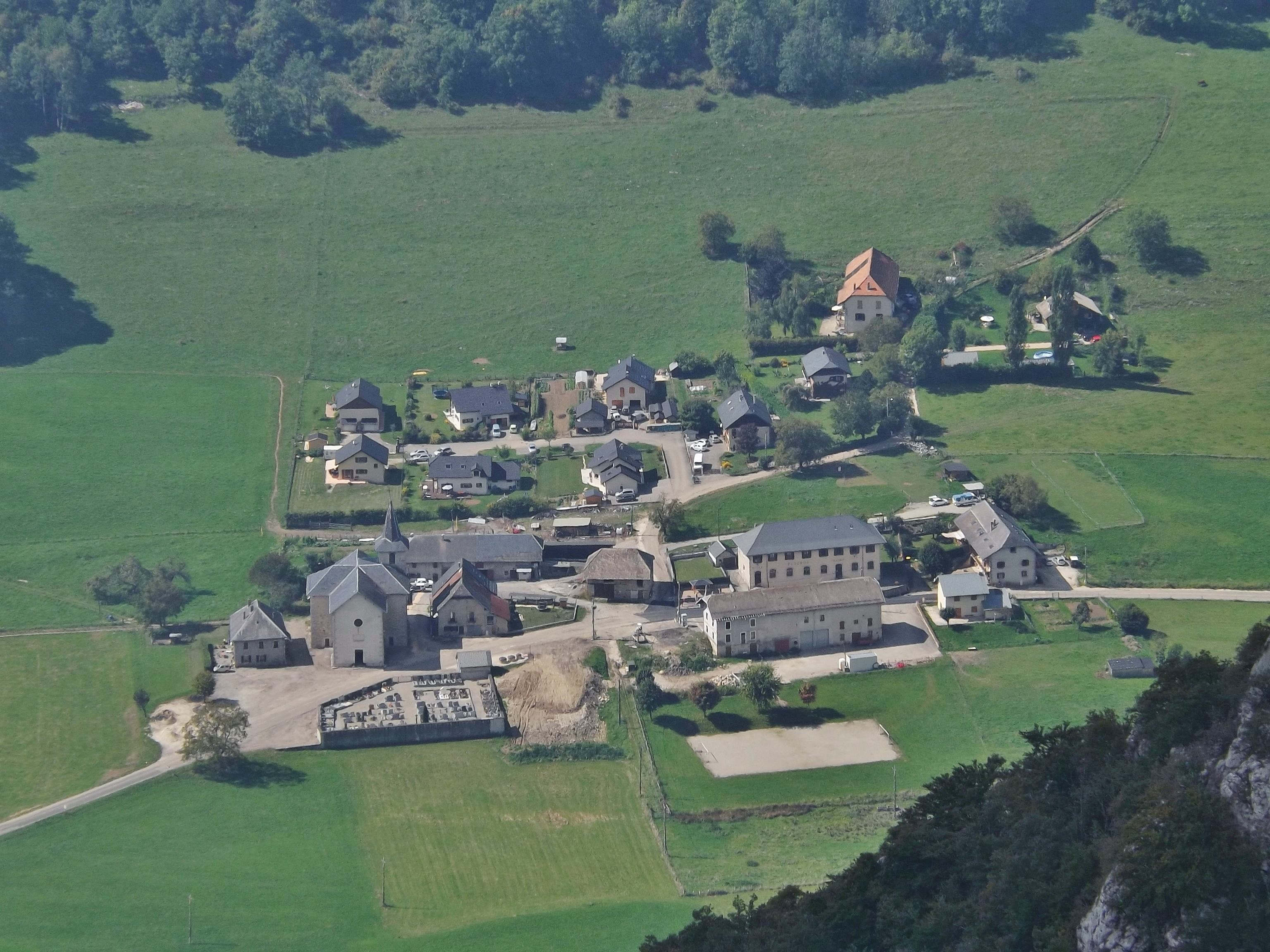 Aerian sight, from the Pointe de la Galoppaz mount, on the French village of Puygros, in the Bauges mountains near Chambéry, in Savoie.